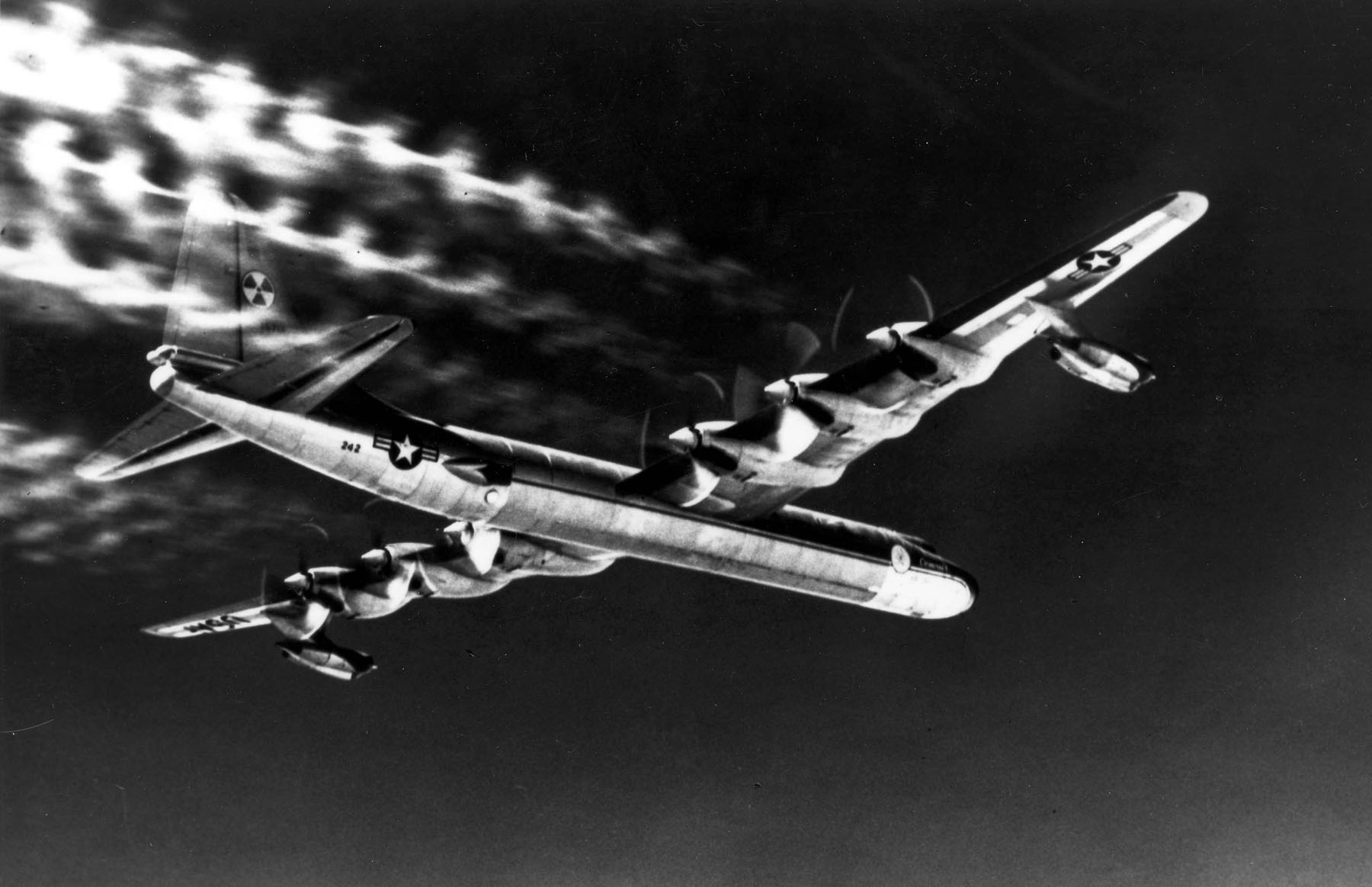 NB-36H producing contrails in flight.